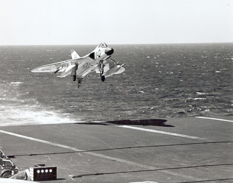 A Douglas F4D-1 Skyray fighter of fighter squadron VF-102 "Diamondbacks" landing on the aircraft carrier USS Forrestal (CVA-59) in March 1961. VF-102 was assigned to Carrier Air Group Eight (CVG-8) for a deployment to the Mediterranean Sea from 9 February to 25 August 1961. Note the AIM-9 "Sidewinder" air-to-air missile on the right outboard pylon and the early-style drop-tank refueling probe on the left inboard pylon.